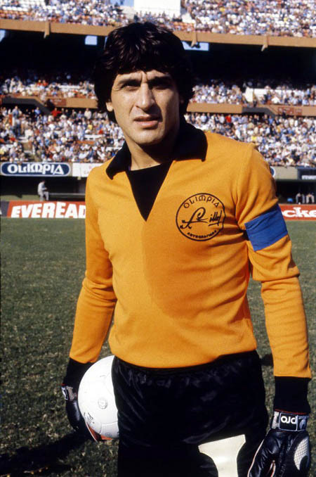 Argentine goalkeeper Ubaldo Fillol, regarded as one of the best in his position.